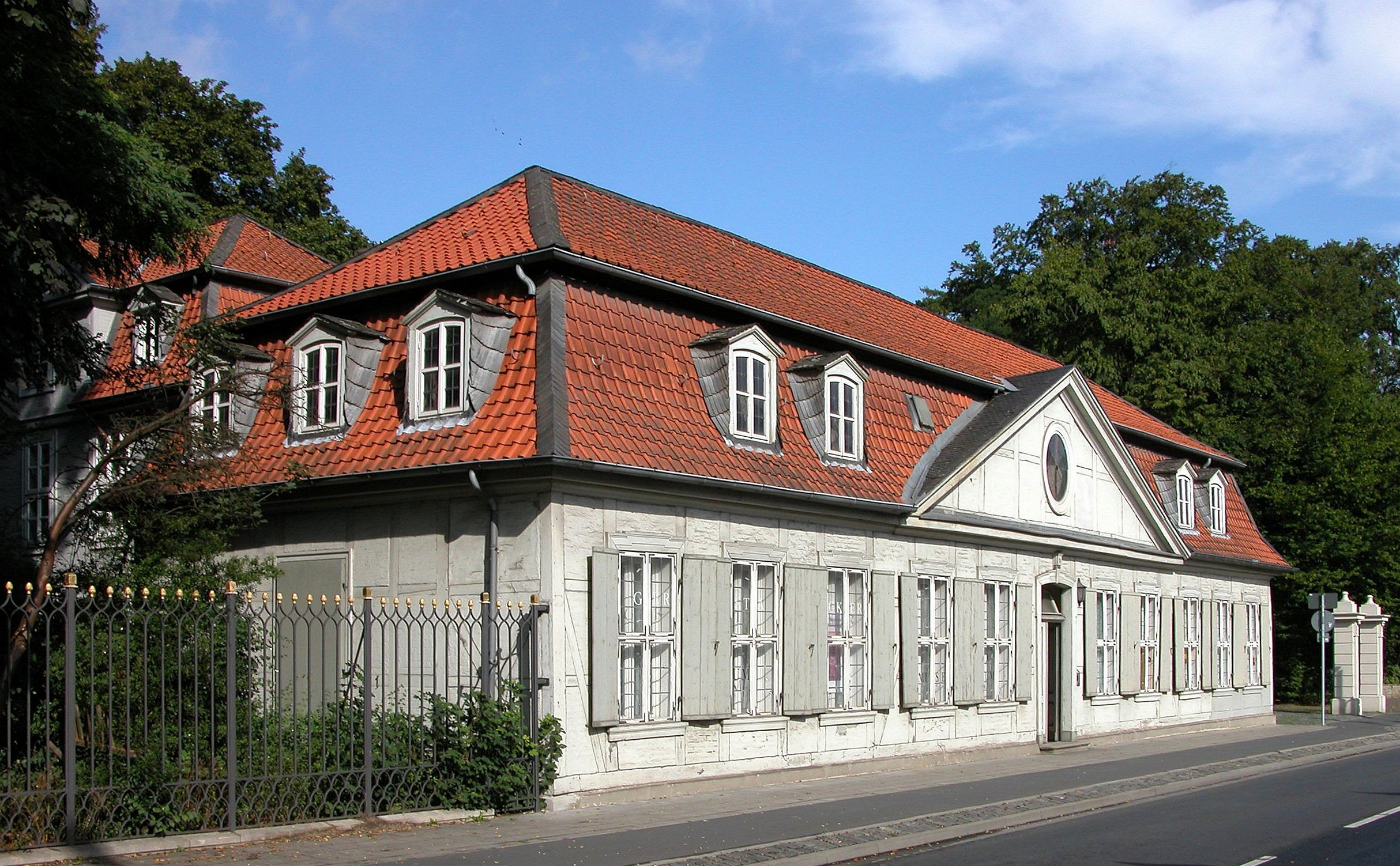 Brunswick, Germany: Friedrich Gerstäcker-Museum.